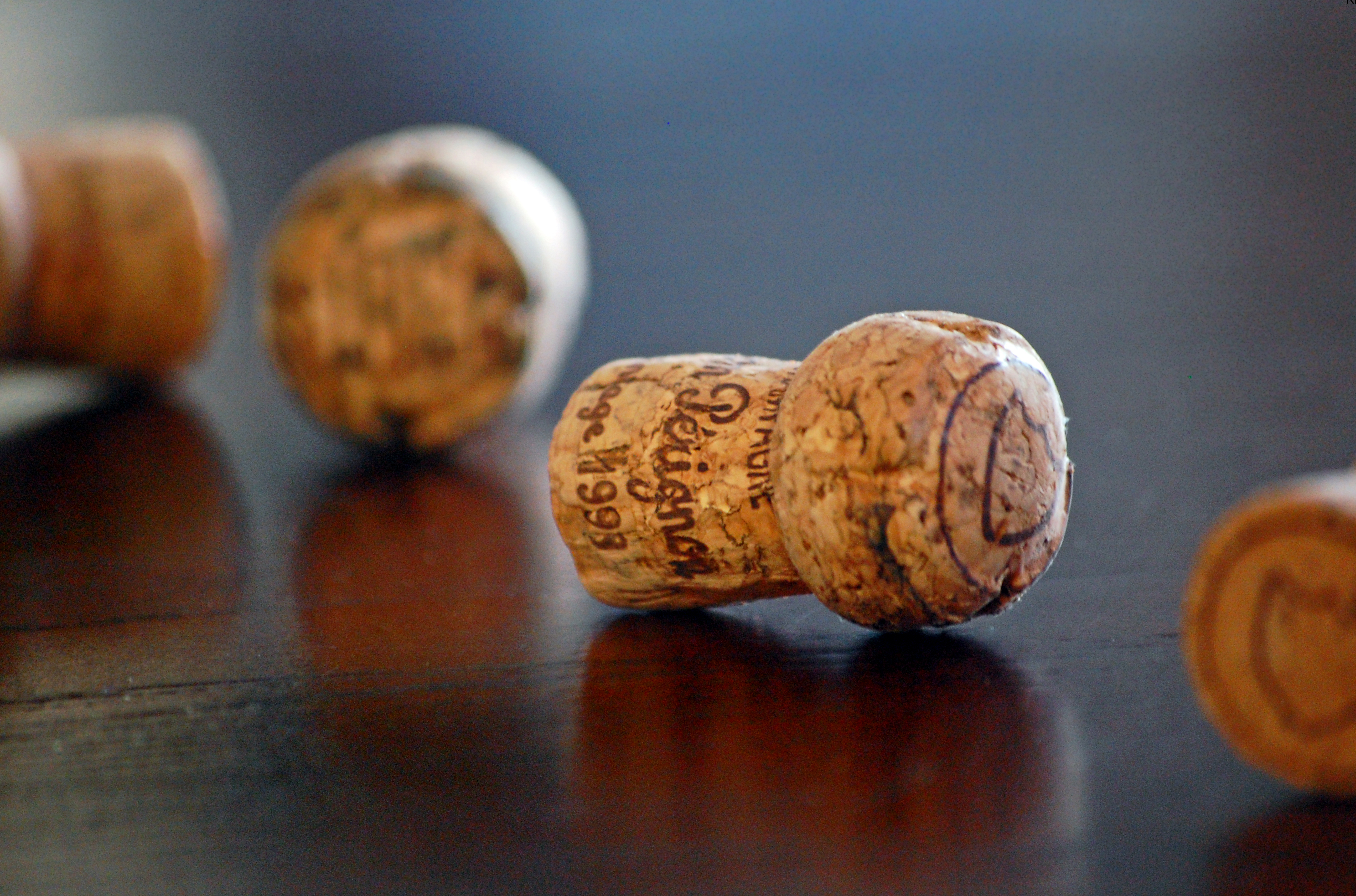 Corks from bottles of Champagne